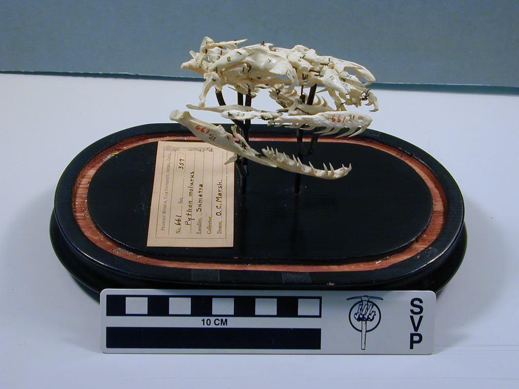 Mounted skull, including lower jaw, of a python (YPM HERR 010588): photo by Taylor, N. D. Courtesy of the Peabody Museum of Natural History, Division of Vertebrate Zoology, Yale University; .